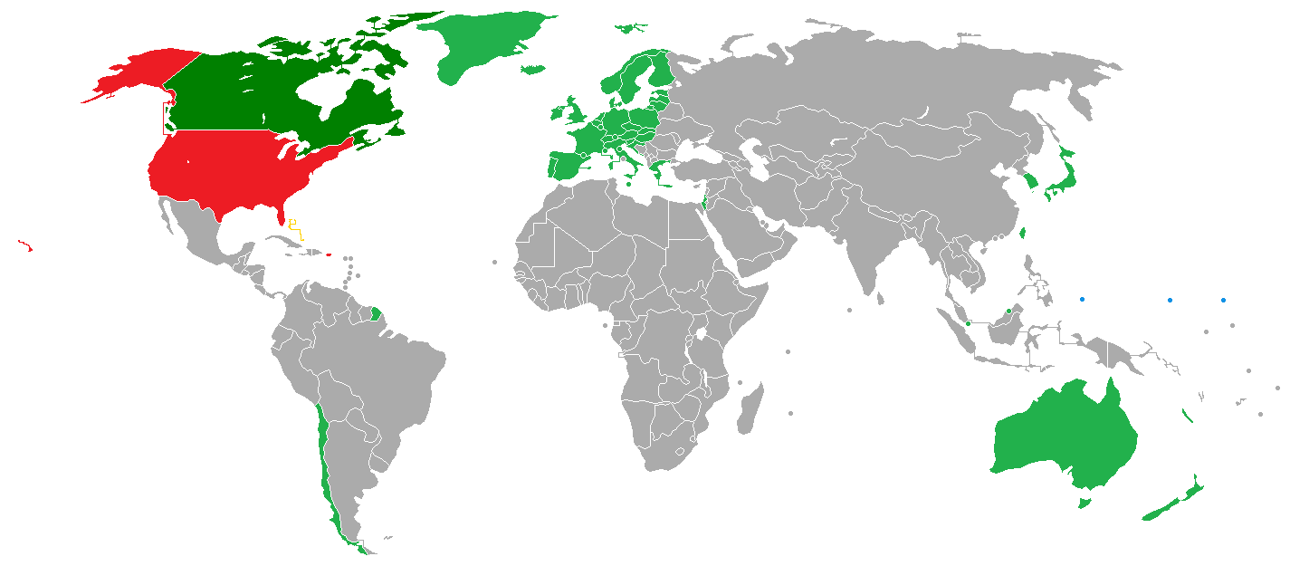 Visa free and Visa Waiver program countries